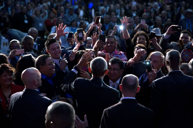 President Barack Obama greets audience members after delivering remarks during the 2016 White House Tribal Nations Conference at the Andrew W. Mellon Auditorium in Washington, D.C., Sept. 26, 2016.